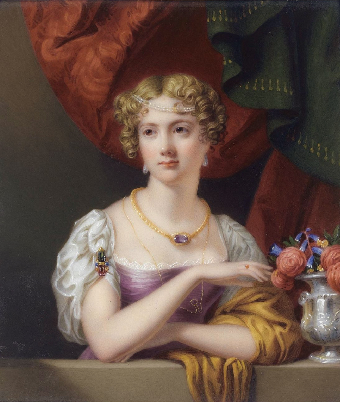 Portrait of Georgiana Charlotte Quin (1794-1823)